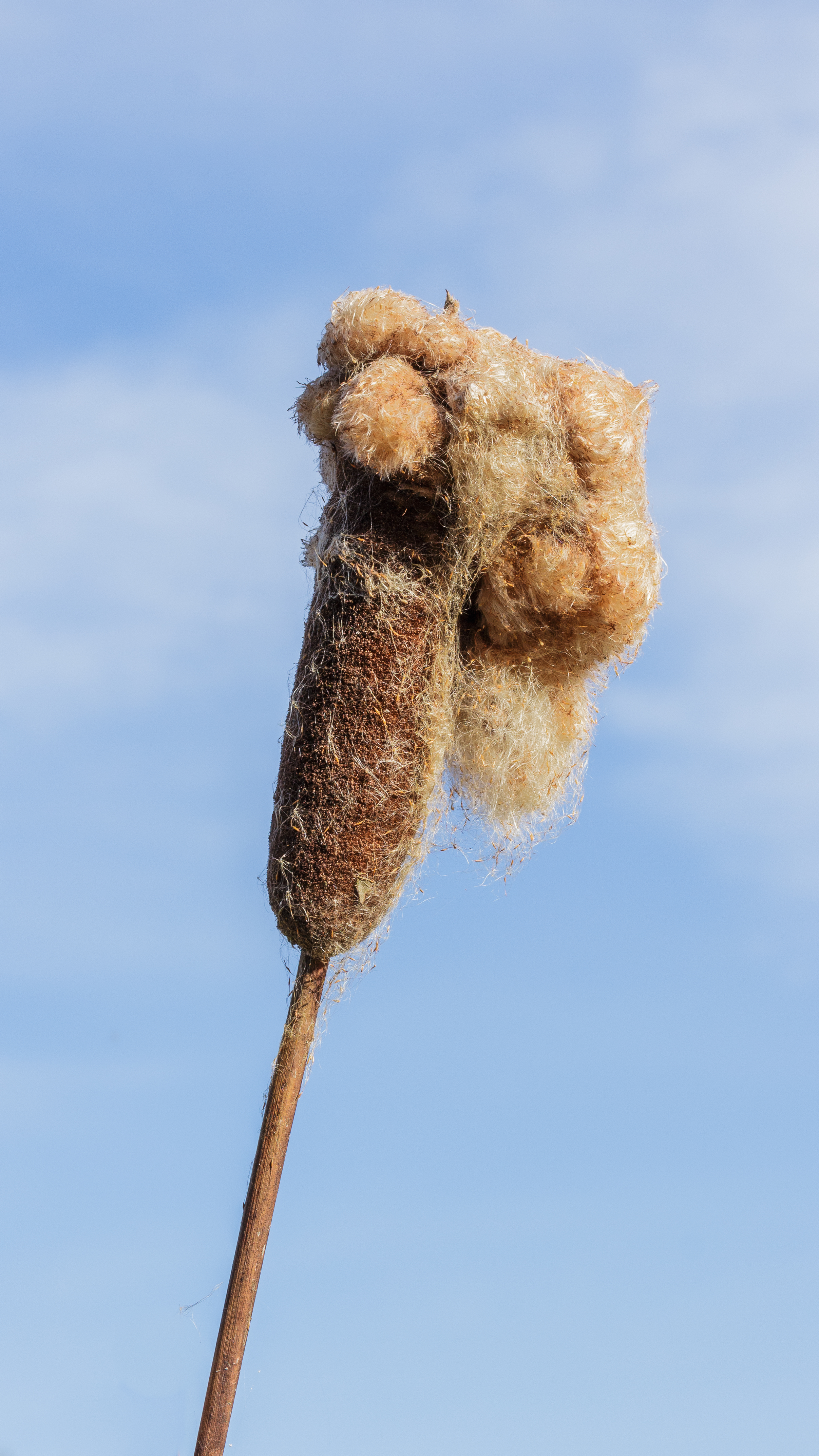 Seed Fluff bulrush Typha latifolia. Location, The Famberhorst.